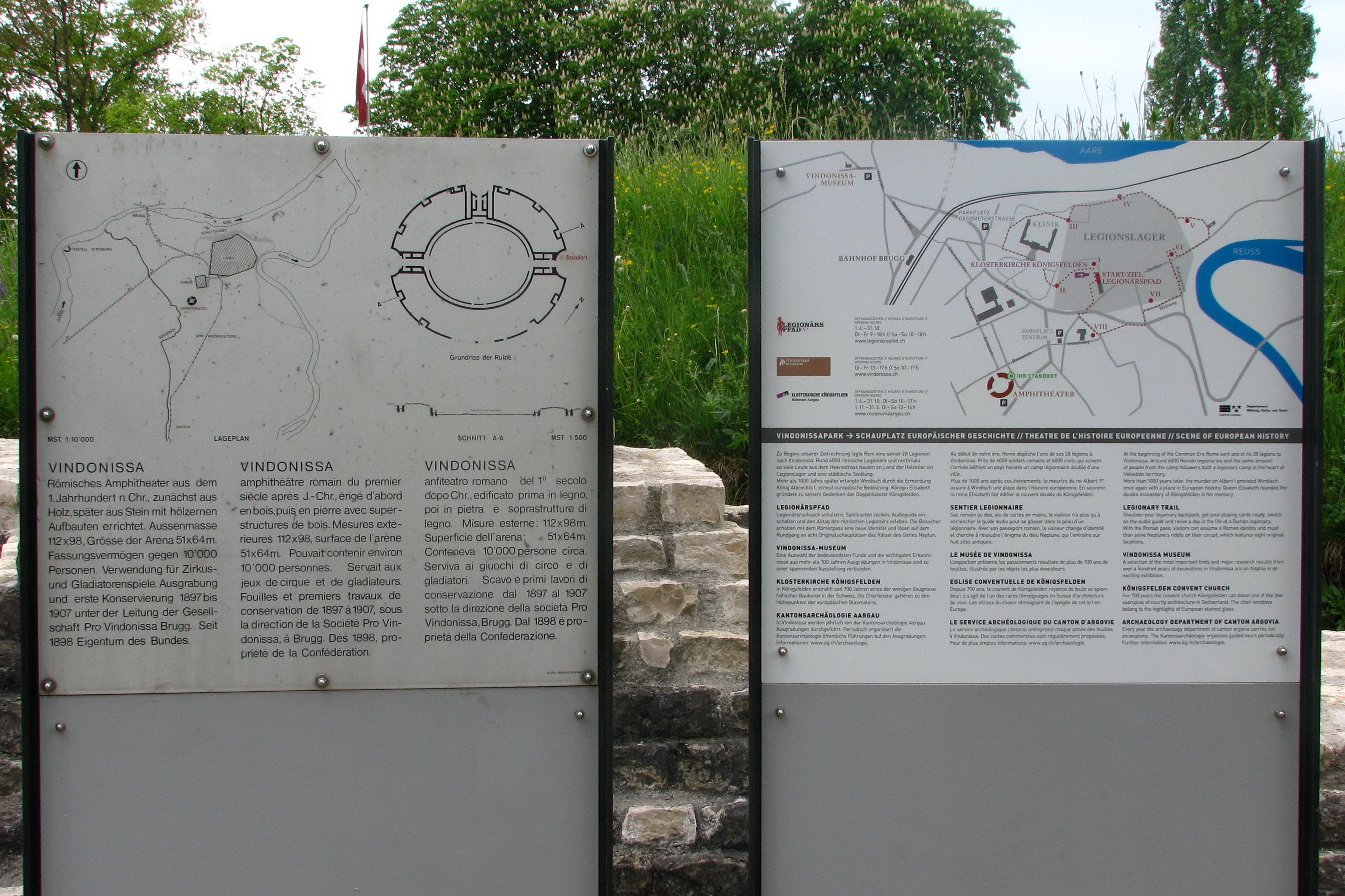 Amphitheatre in Windisch (Switzerland)